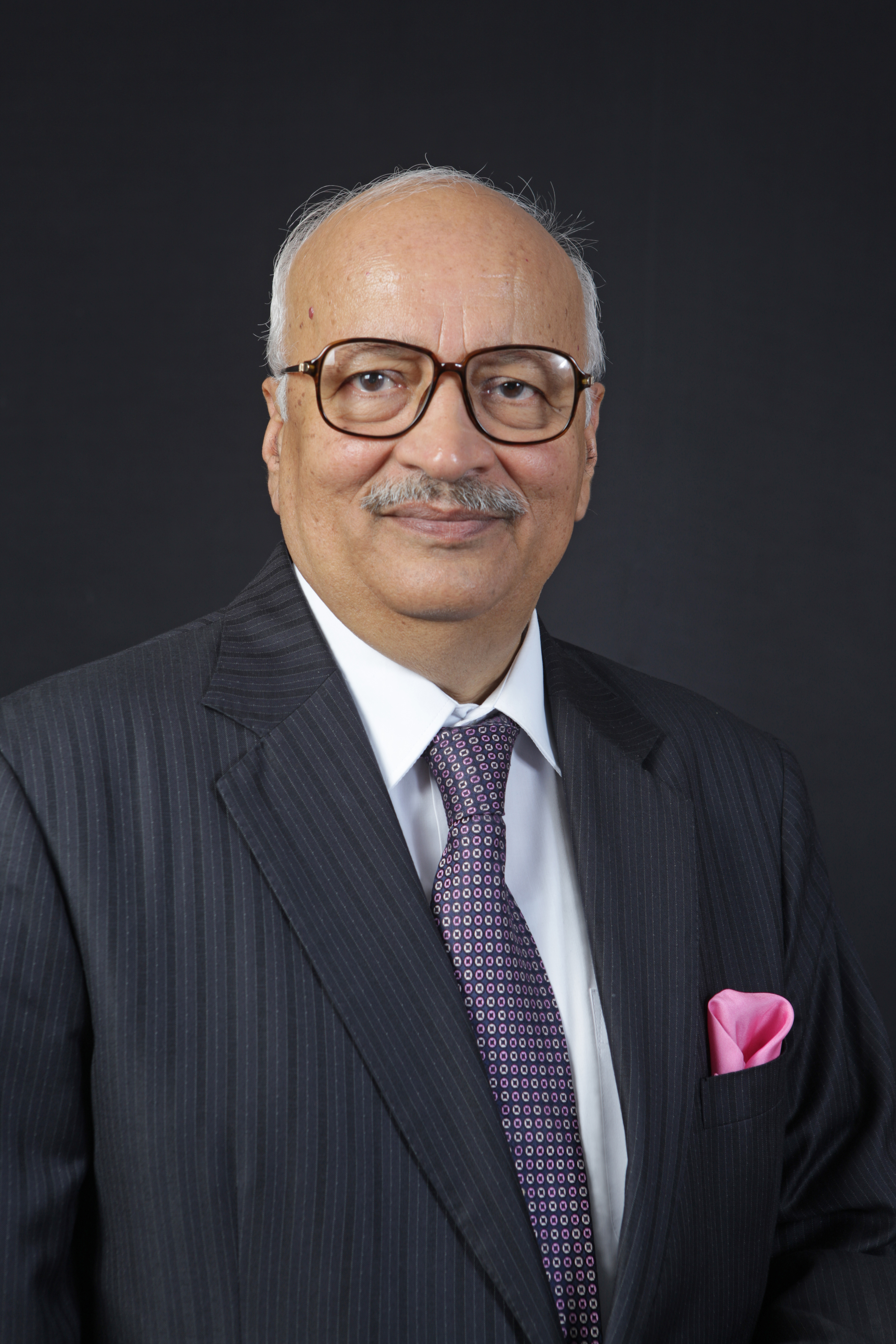 Picture of Governor of Sikkim